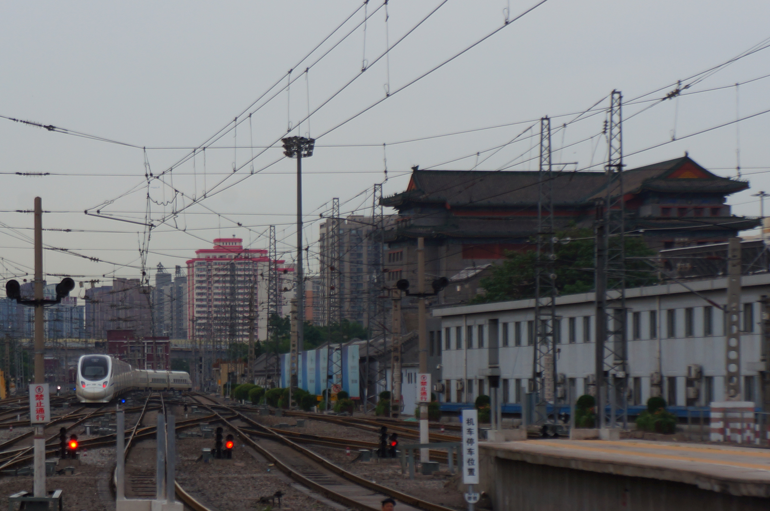 201606 D1 leaves away from Beijing